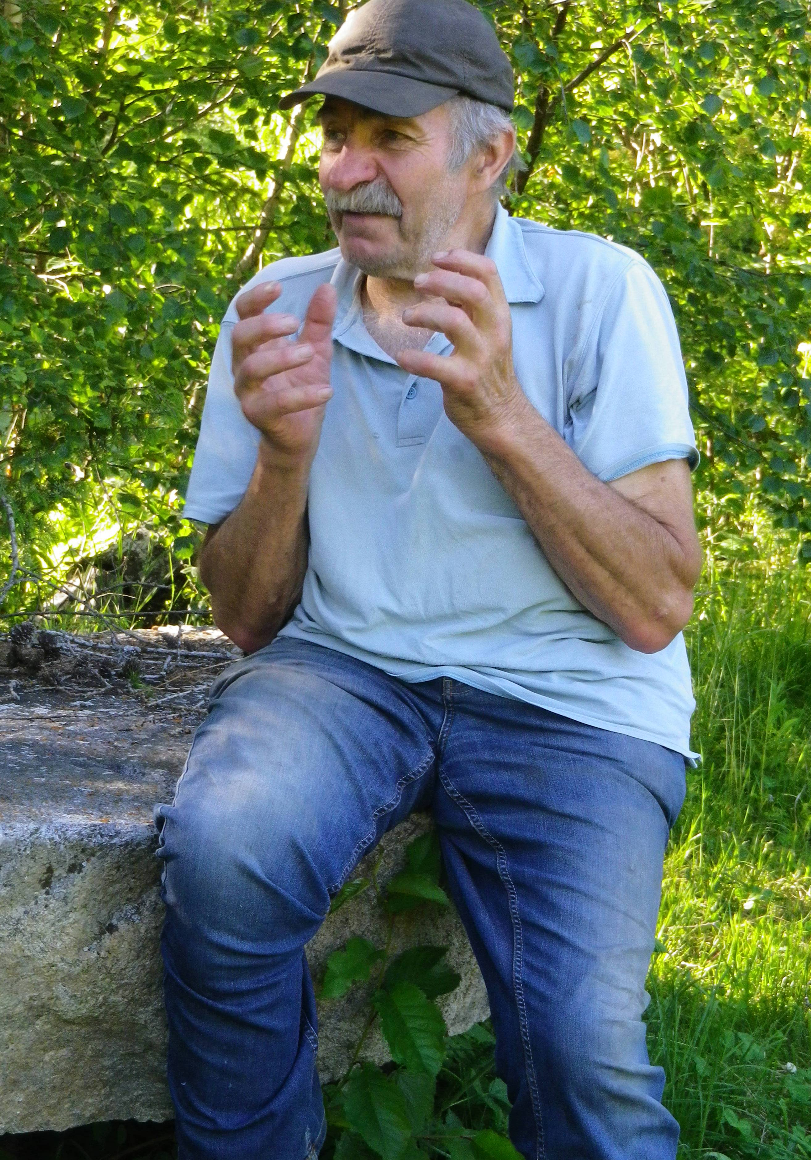 Portrait of the Austrian artist (sculptor) Kassian Erhart